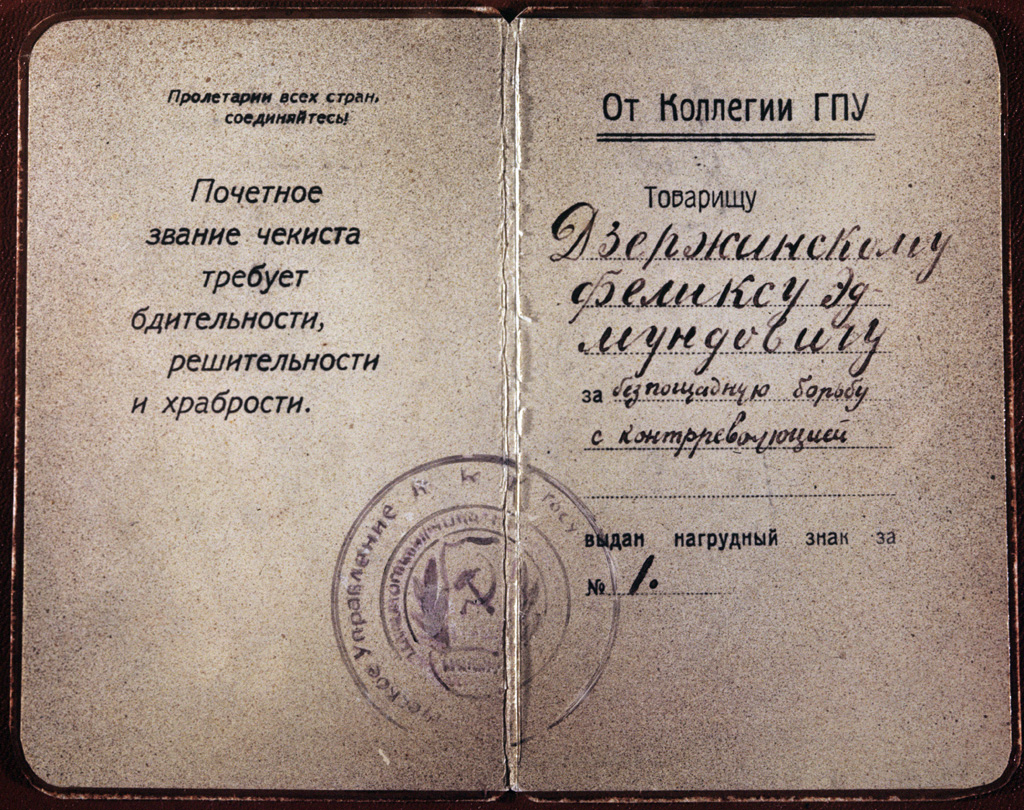 “Document granting Felix Dzherzhinsky title of Honored security officer”. Document granting Felix Dzherzhinsky the title of Honored security officer. 1922. Reproduction. The Central Museum of the Federal Frontier Service of Russia.